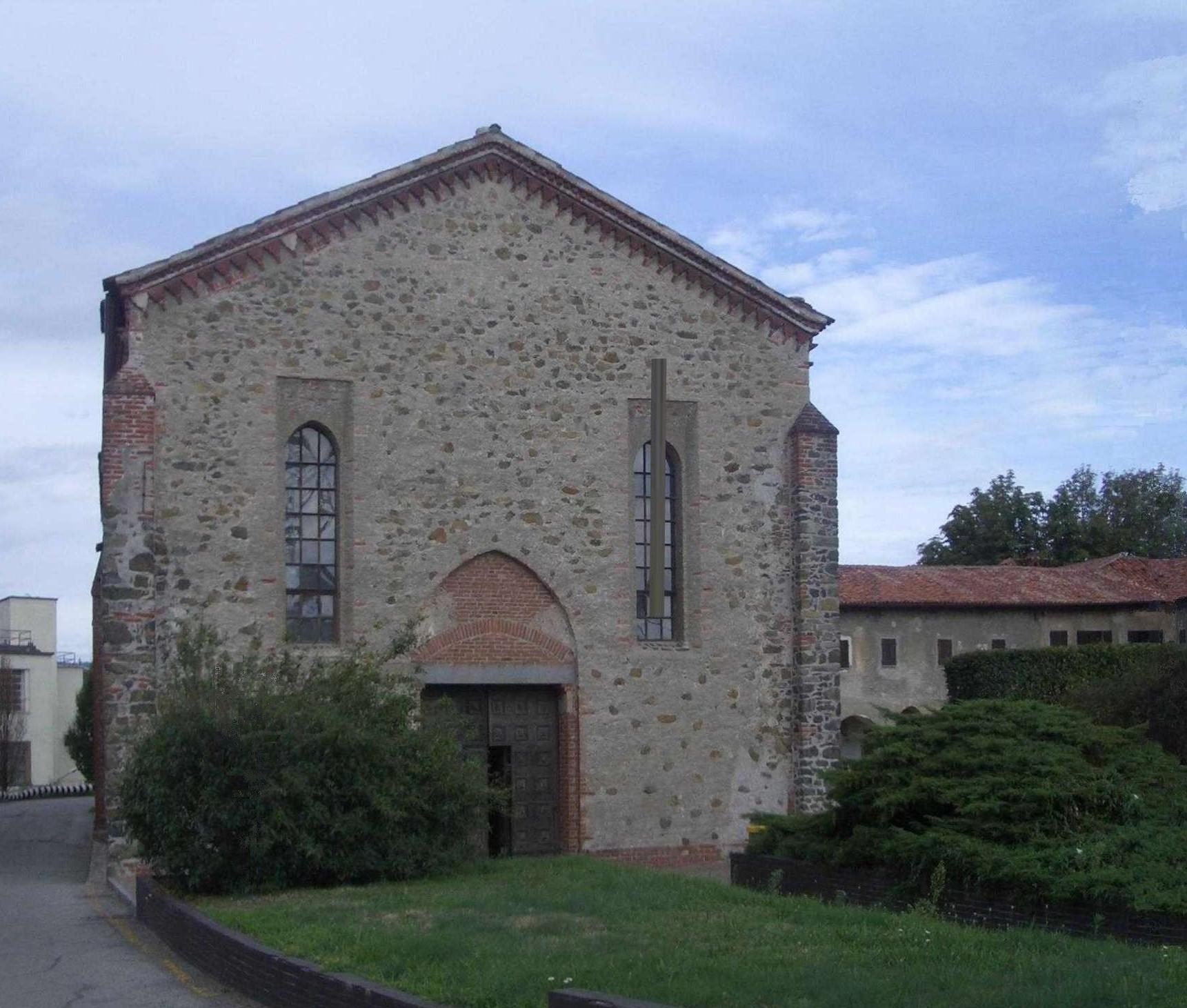 Photo of the convent church of San Bernardino (XV century), Ivrea, Italy